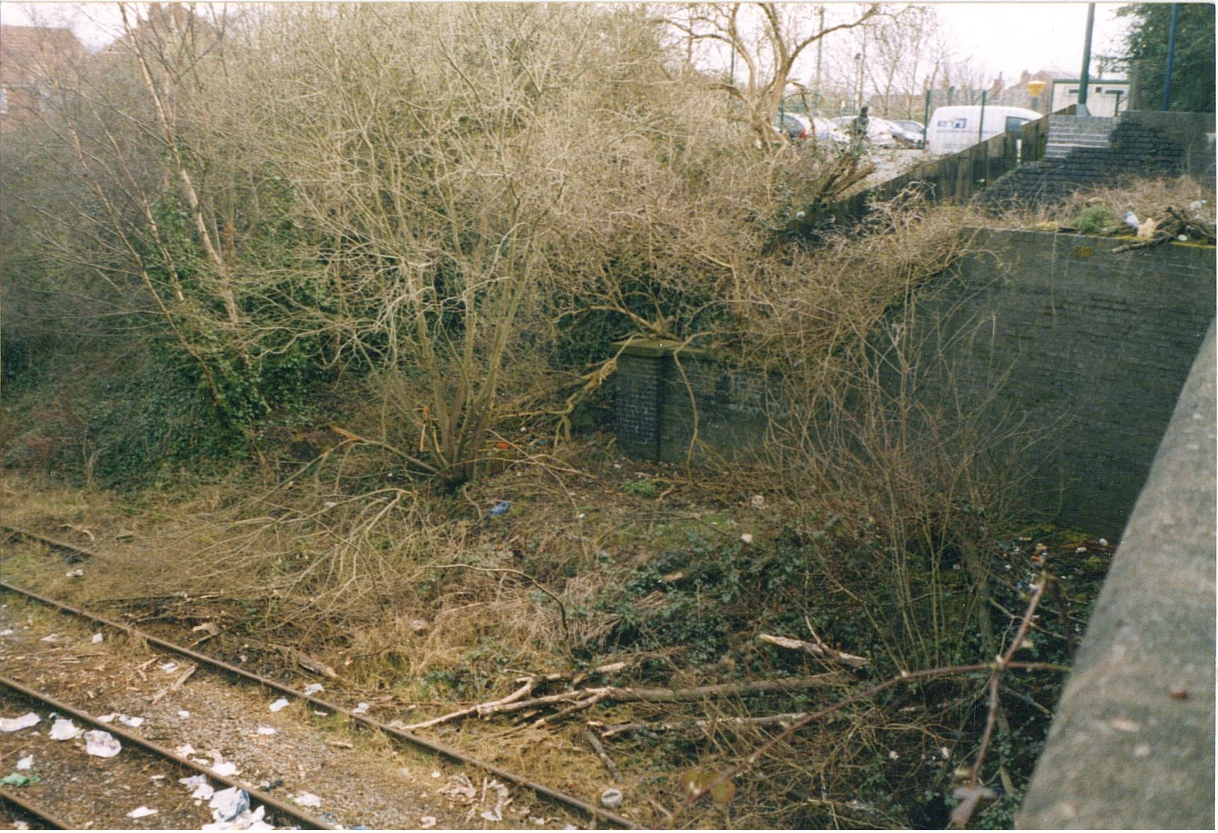 A picture or Dudley port station's lower level in 2001. The diaganal brick structure on the right is a former stairway.